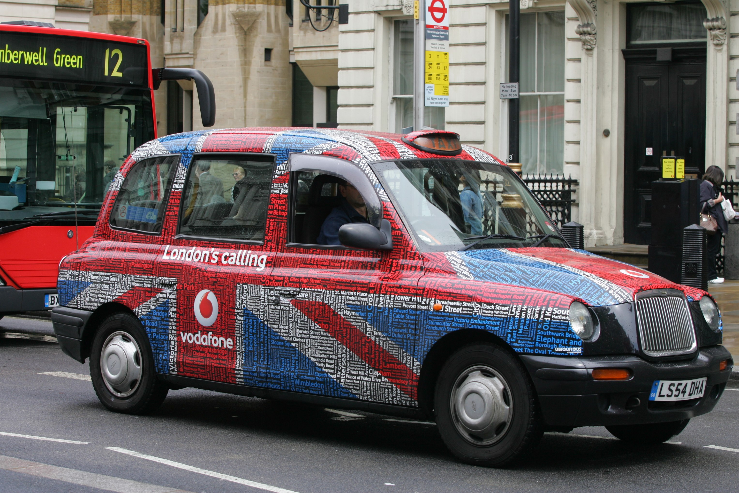 Londons Calling!!!!